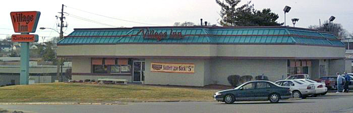 Exterior of the Village Inn restaurant near Southridge Mall in Des Moines, Iowa.